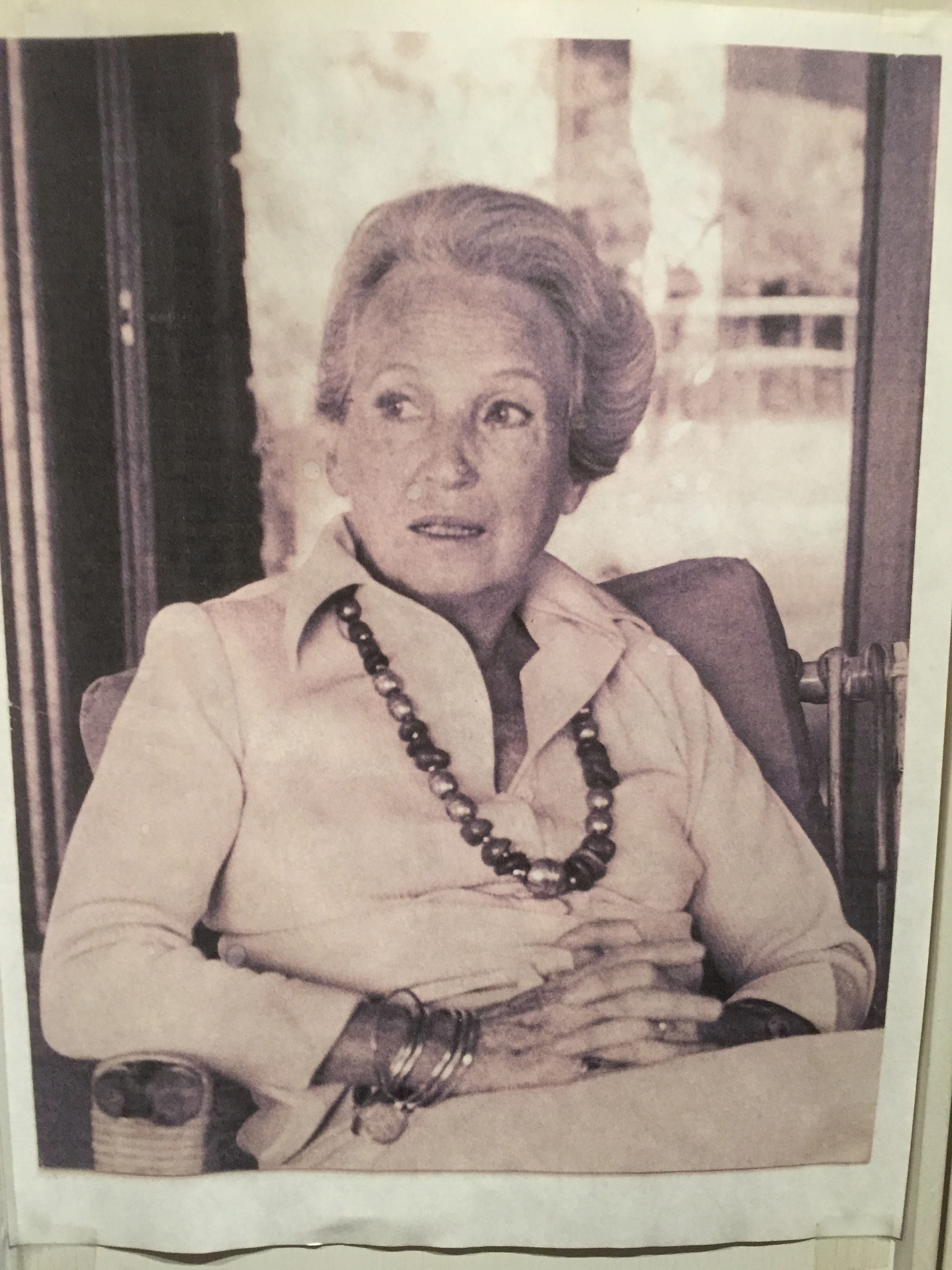 Portrait photo